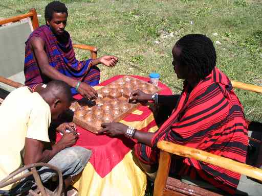 Two Maasais playing bao at zanzibar. Lodge in Kizimkazi